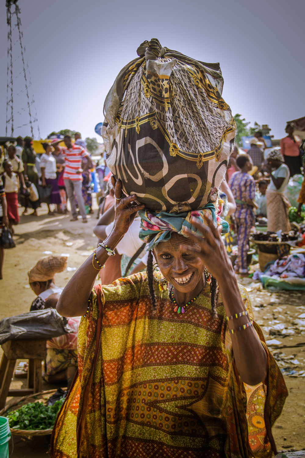 she believes her drug could cure pile and other ailments , though we had little communication issue at first because i speak yoruba and she speaks hausa , only for me to find out during our troubled conversation that she also speaks yoruba even it was not as clear as mine . i dint forget to tell her i liked her beads and entire dressing combo This is an image of "African people at work" from Nigeria